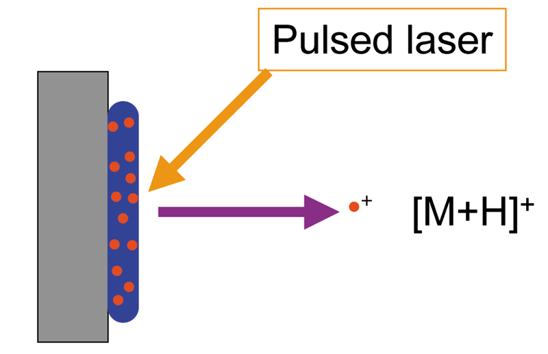 Idealized depiction of matrix-assisted laser desorption ionization for time-of-flight mass spectrometry